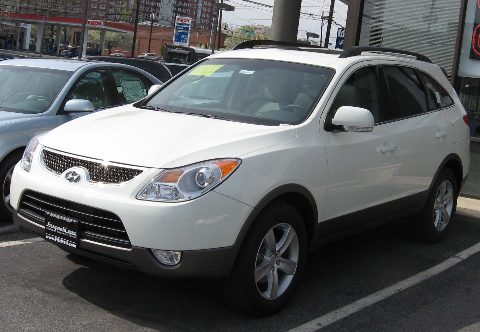 2007 Hyundai Veracruz photographed in USA.